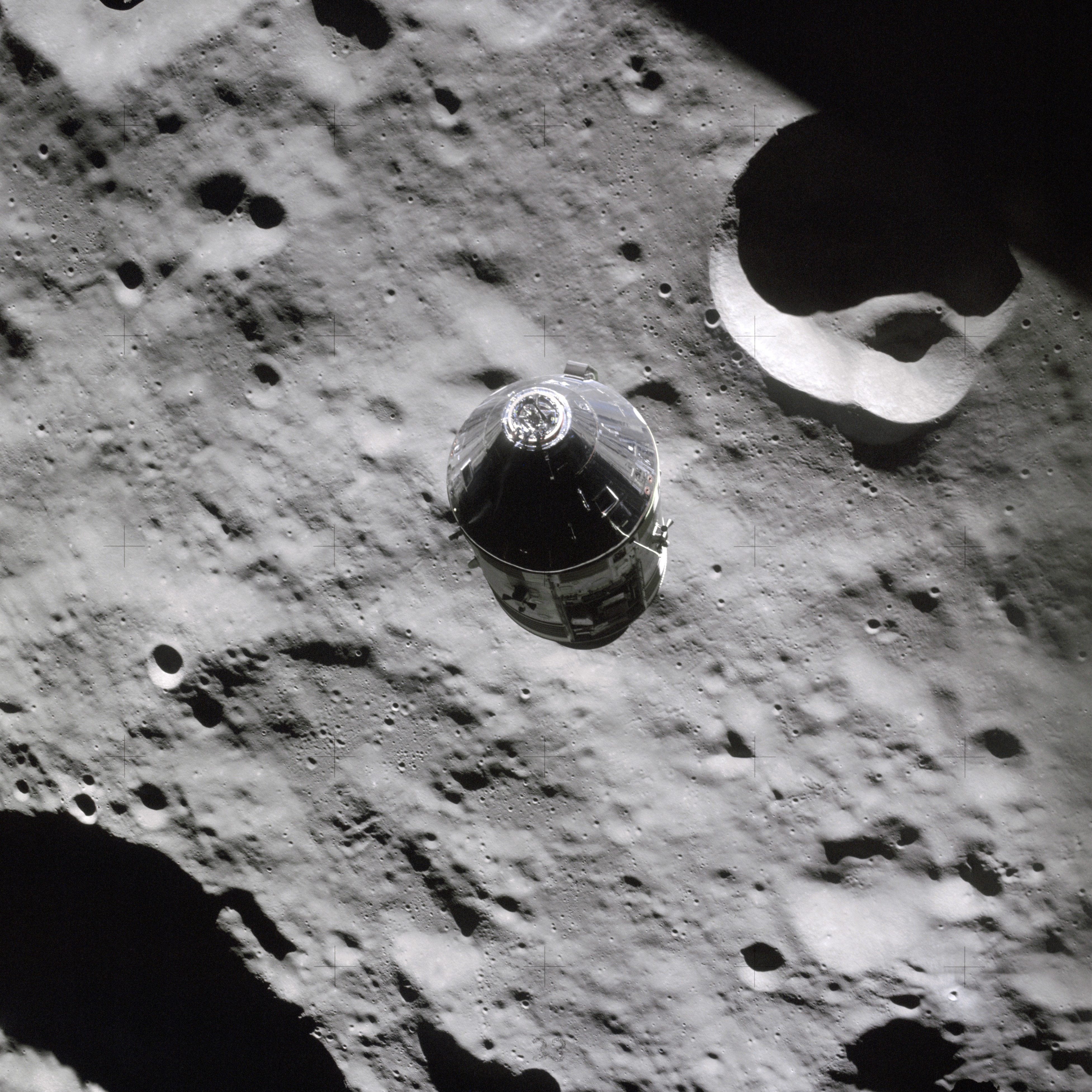 The Apollo 16 Command and Service Modules (CSM), as seen from the Lunar Module (LM, out of view) above terrain on the lunar farside. The two spacecraft had just undocked. The LM and CSM were out of communication at the time of this photograph's exposure, but shortly acquired the signal as they moved separately to Earth's side of the moon. While astronauts John W. Young, commander; and Charles M. Duke Jr., lunar module pilot, descended in the Apollo 16 LM "Orion" to explore the Descartes highlands landing site on the moon, astronaut Thomas K. Mattingly II, command module pilot, remained with the CSM "Casper" in lunar orbit